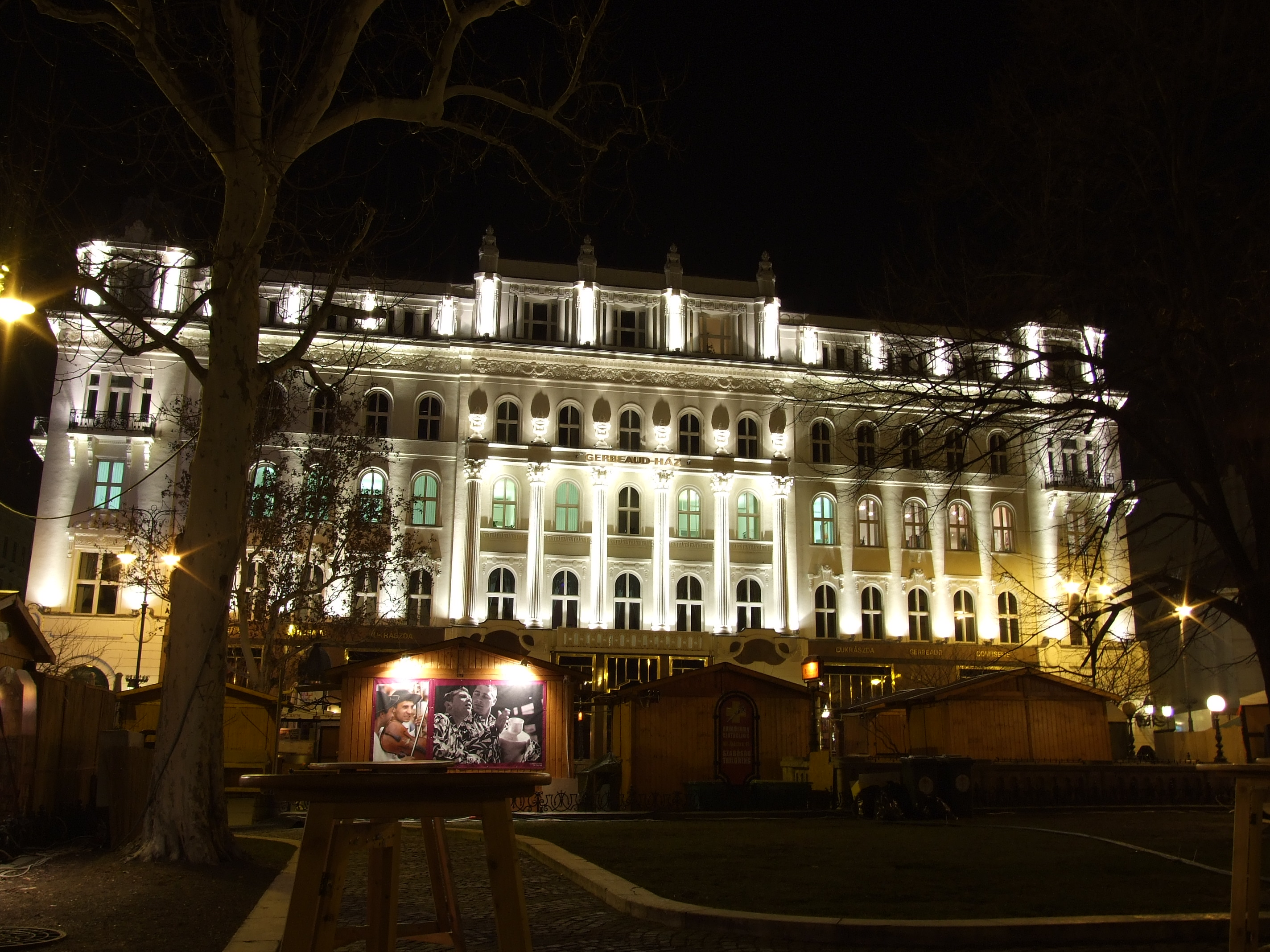 Vörösmarty Square in Budapest, Hungary